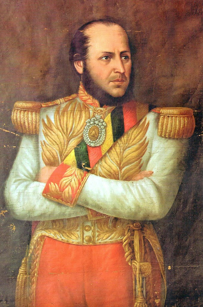 This is a portrait of the Bolivian President José Ballivián who died 1852.